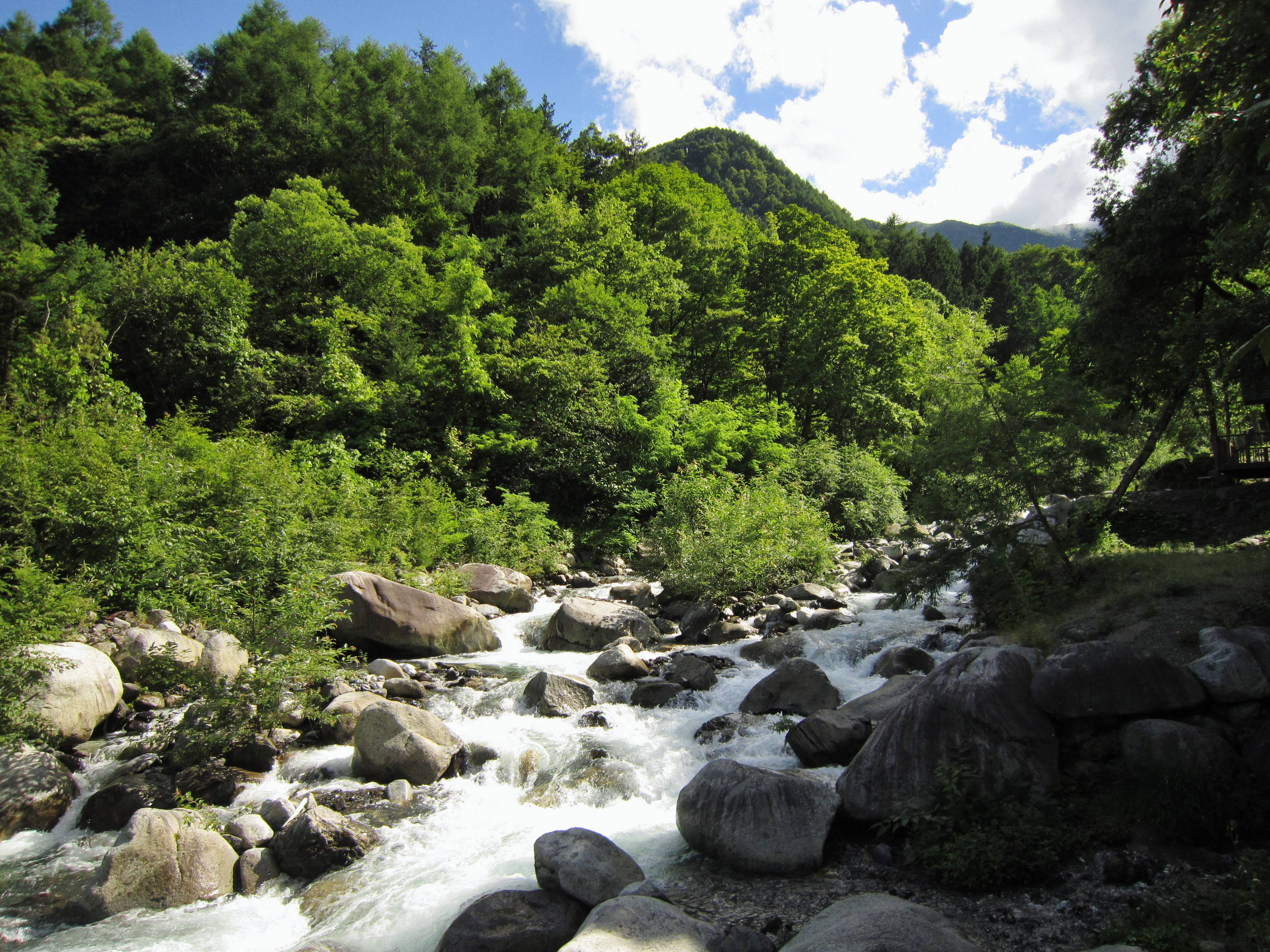 Oguro River.